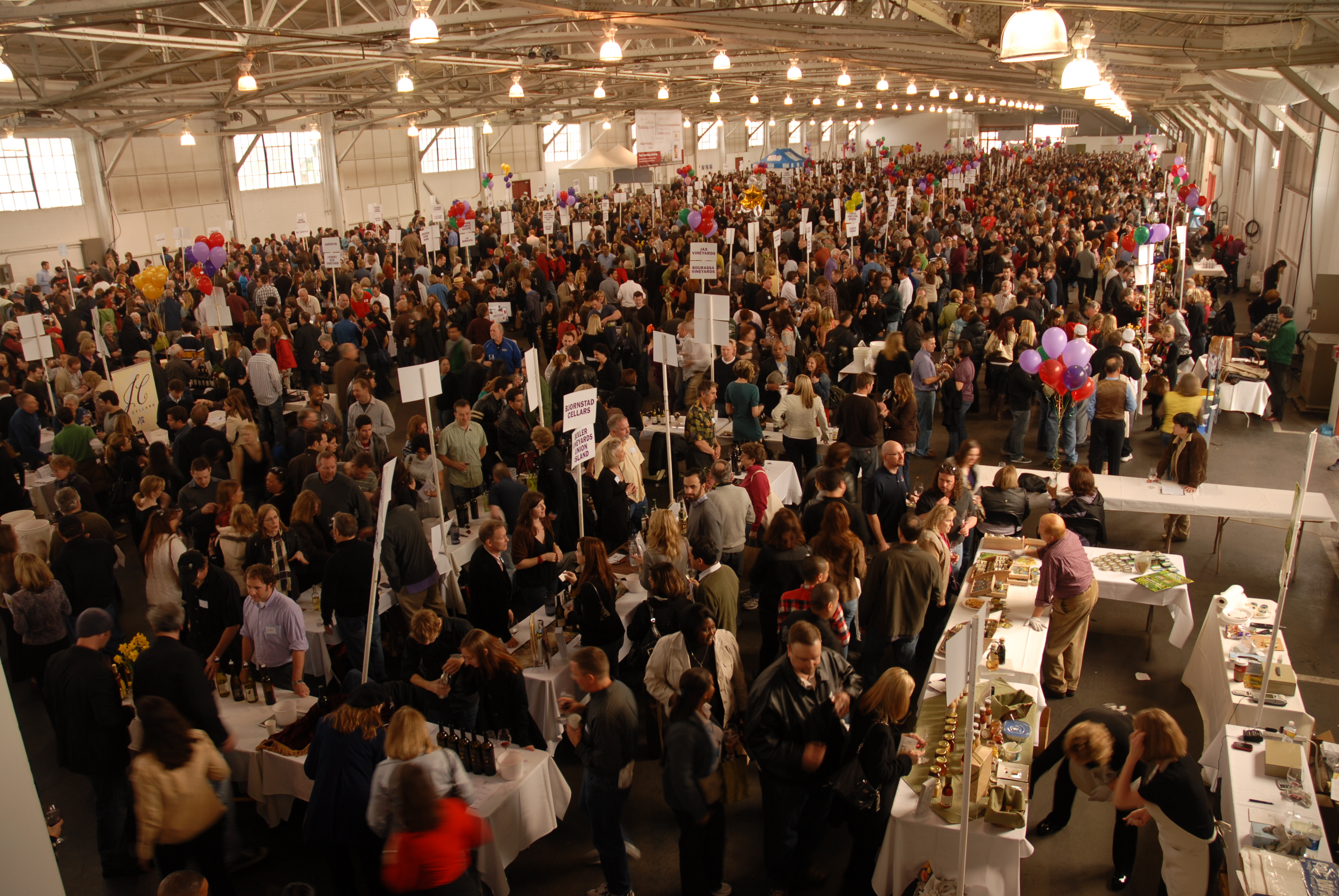 Public tasting event of the San Francisco Chronicle Wine Competition 2010. Festival Pavilion, Fort Mason Center, San Francisco, California. The background features the Golden Gate Bridge